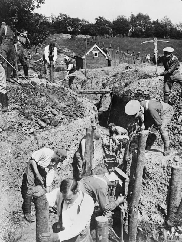 The British Army on the Home Front, 1914-1918 Troops of the 1st Battalion, County of London Volunteers (United Arts Volunteer Rifles) constructing trenches (part of London's outer defences) at Otford, 1916.